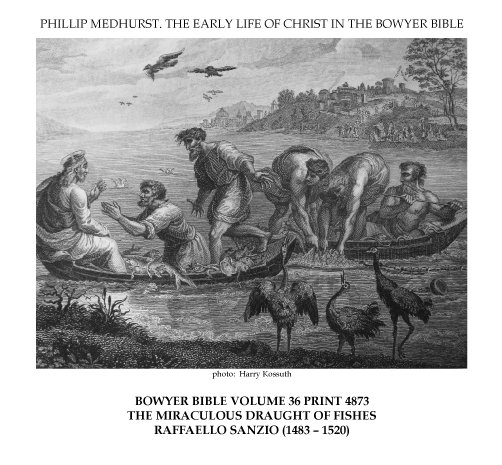 Christ sits in the boat at left, with five men accompanying him and drawing fish from the water; etched and engraved after a drawing by Raphael. Published by John Bowles in London c. 1721. School: Italian. Dimensions: height: 357 mms; width: 432 mms. From a series of eight plates (a title and seven scenes) reproducing the cartoons executed by Raphael for a series of tapestries for the Sistine Chapel, commissioned by Pope Leo X. (The cartoons are now in the Victoria & Albert Museum.) This is Plate 4. The title-plate, by Chaperon – “Fame Crowning Raphael” – is found in the Bowyer Bible as print 5 in Volume 1.